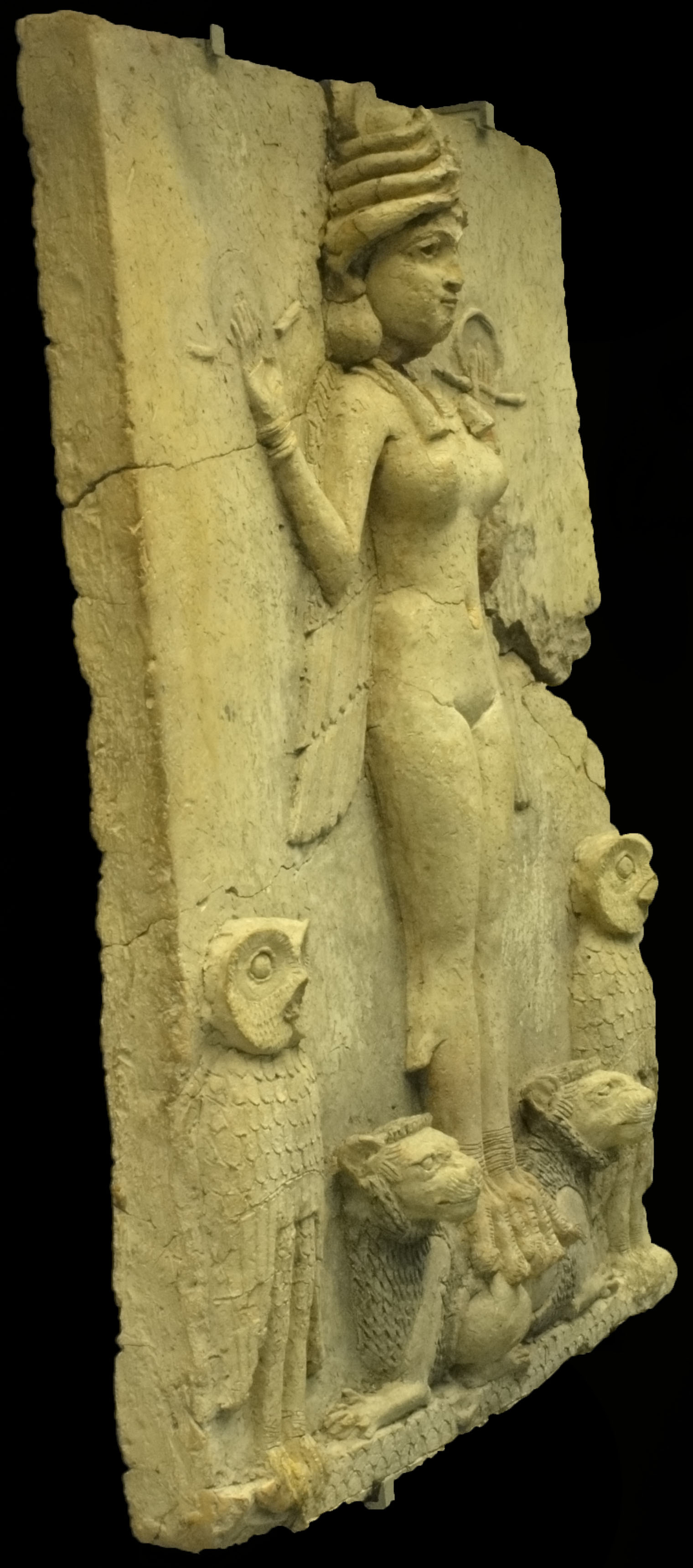 Known as the Burney relief or Queen of the Night Relief